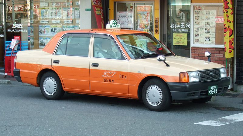 Toyota Comfort for Fukuoka Nishitetsu Taxi (fleet of Chikushi depot) in Chikushino City, Fukuoka, Japan